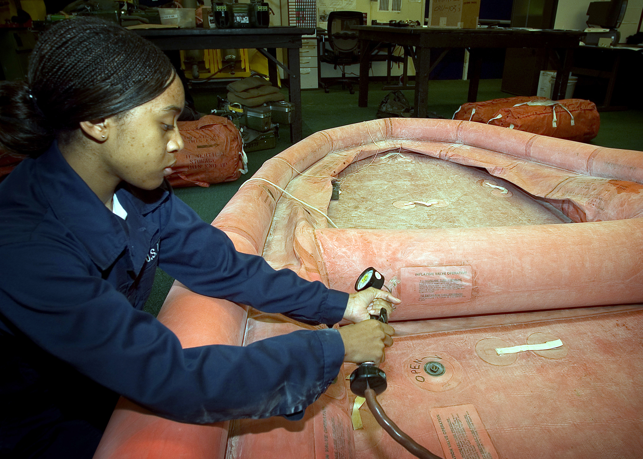 Whidbey Island, Wash. (Aug. 23, 2005) - Airman Lahoya Harrison inflates a life raft from a P-3C Orion aircraft to check for leaks or other damages. The rafts are checked every 224 days. Airman Harrison is assigned to Aircraft Intermediate Maintenance Department (AIMD) Aviation Safety Equipment Division, located on board Naval Air Station Whidbey Island, Wash. U.S Navy photo by Photographer's Mate 2nd Class Casey R. Jones (RELEASED)